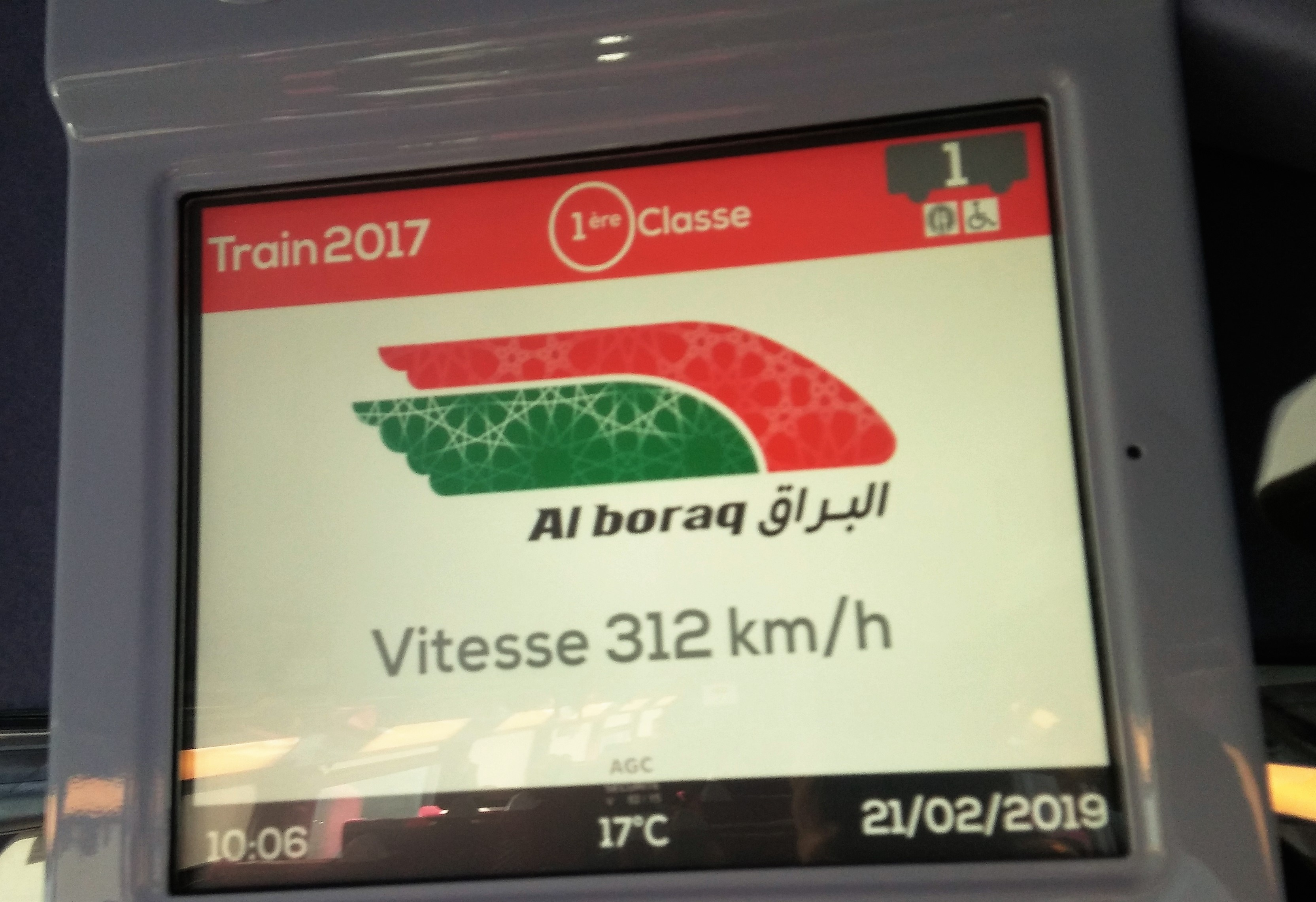 The Moroccan fast train Al Boraq (The Lightning) lives up to its name.